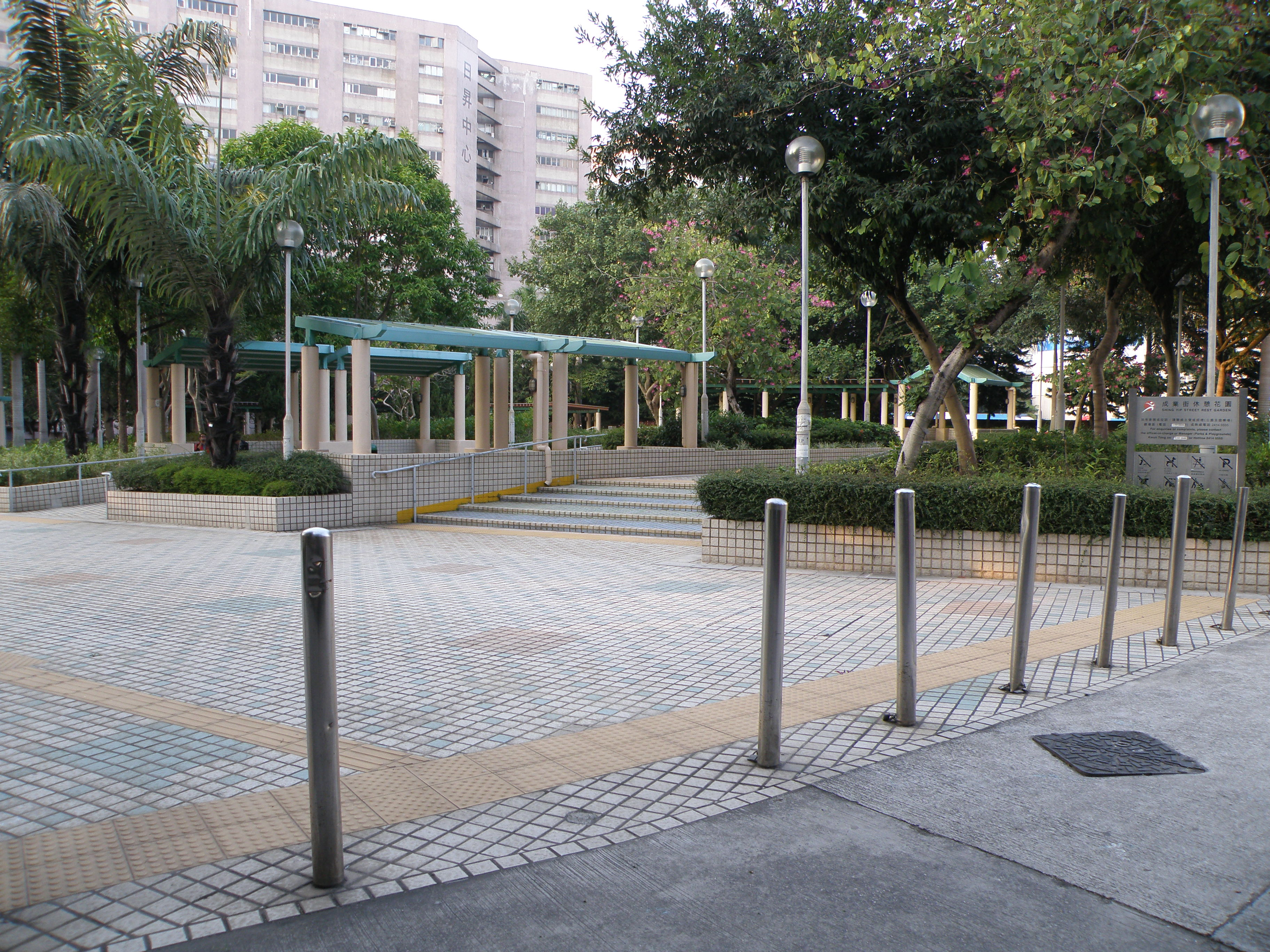 Shing Yip Street Rest Garden in Kwun Tong, Hong Kong.